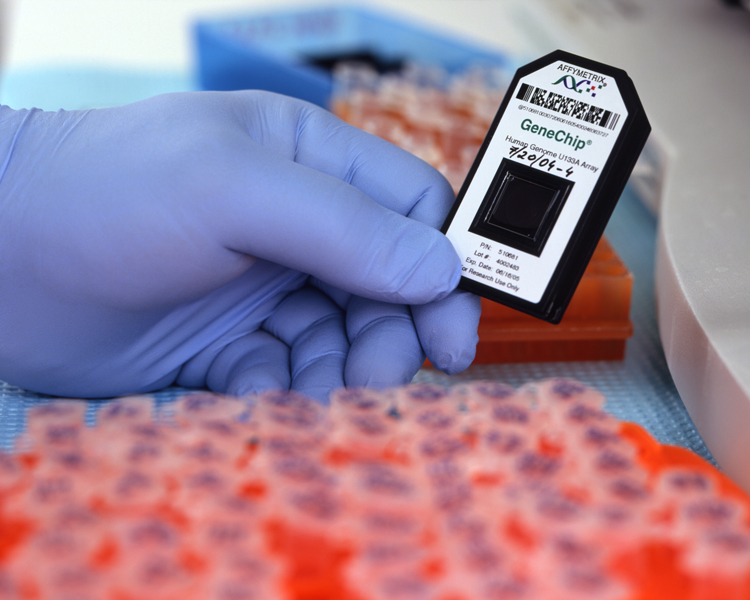 An Affymetrix GeneChip DNA microarray loaded with RNA from a single patient.